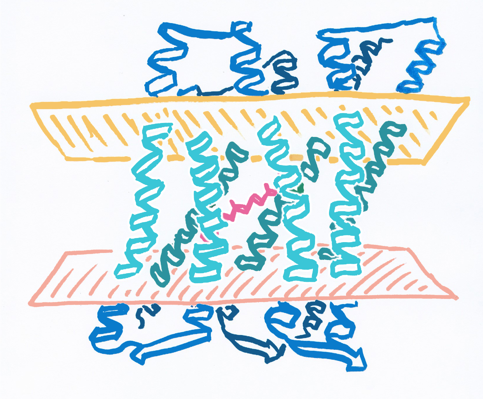 Tertiary structure scheme of Archaerhodopsin.